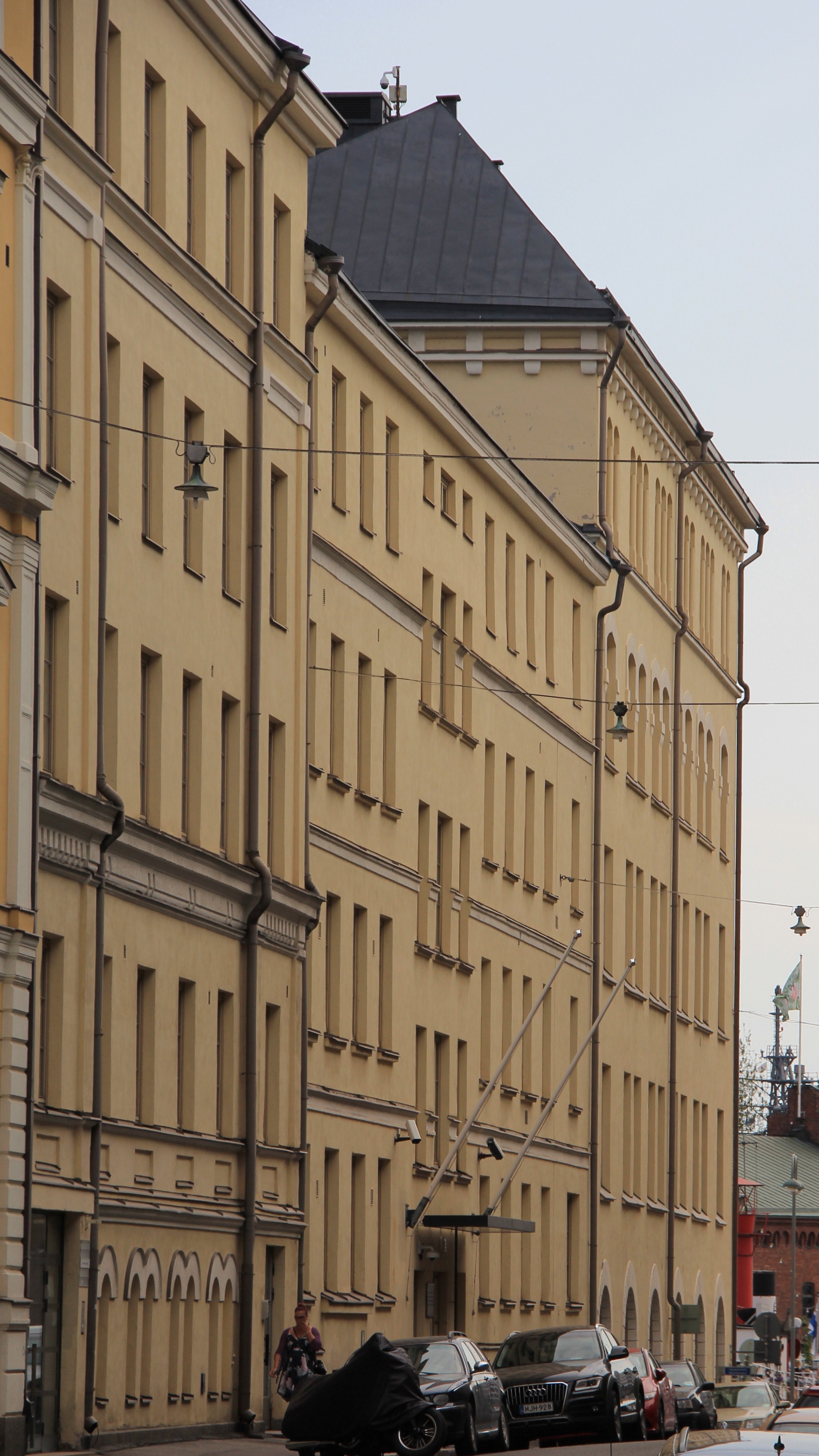 Borgström tobacco factory buildings, Meritullinkatu 1, Helsinki, Finland. - Factory buildings towards Meritullinkatu.